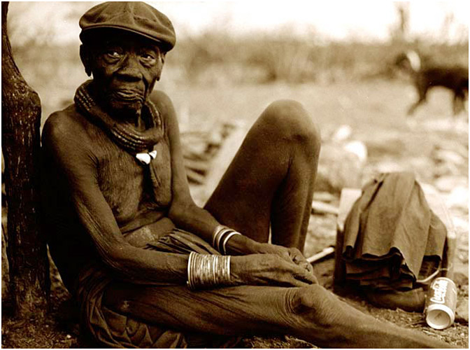 Himba headman in front of his hut